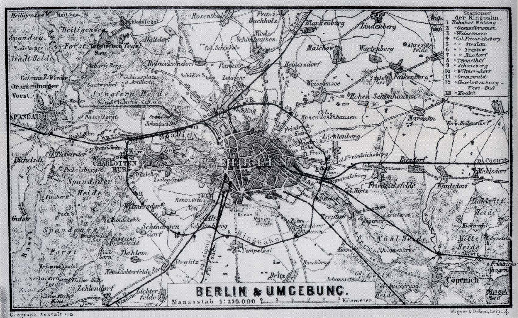 Map of Berlin, steel engraving